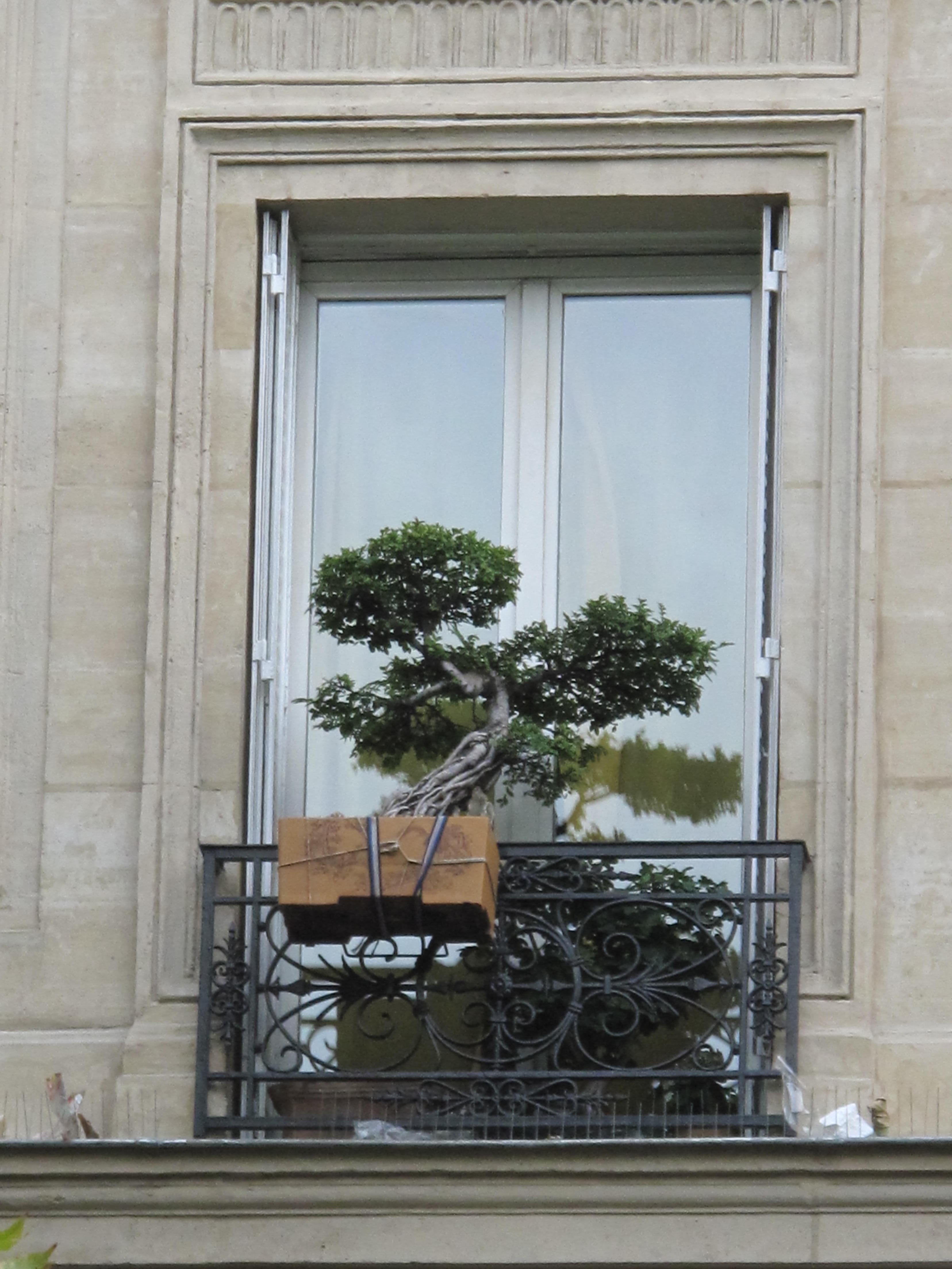 Bonsai on a window, 66 Bd d'Ornano : Paris 18th arr.